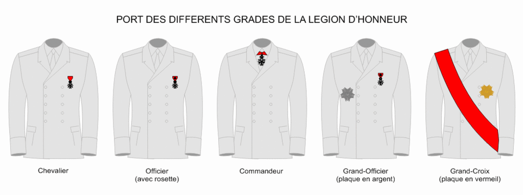 How to wear a medal of honour